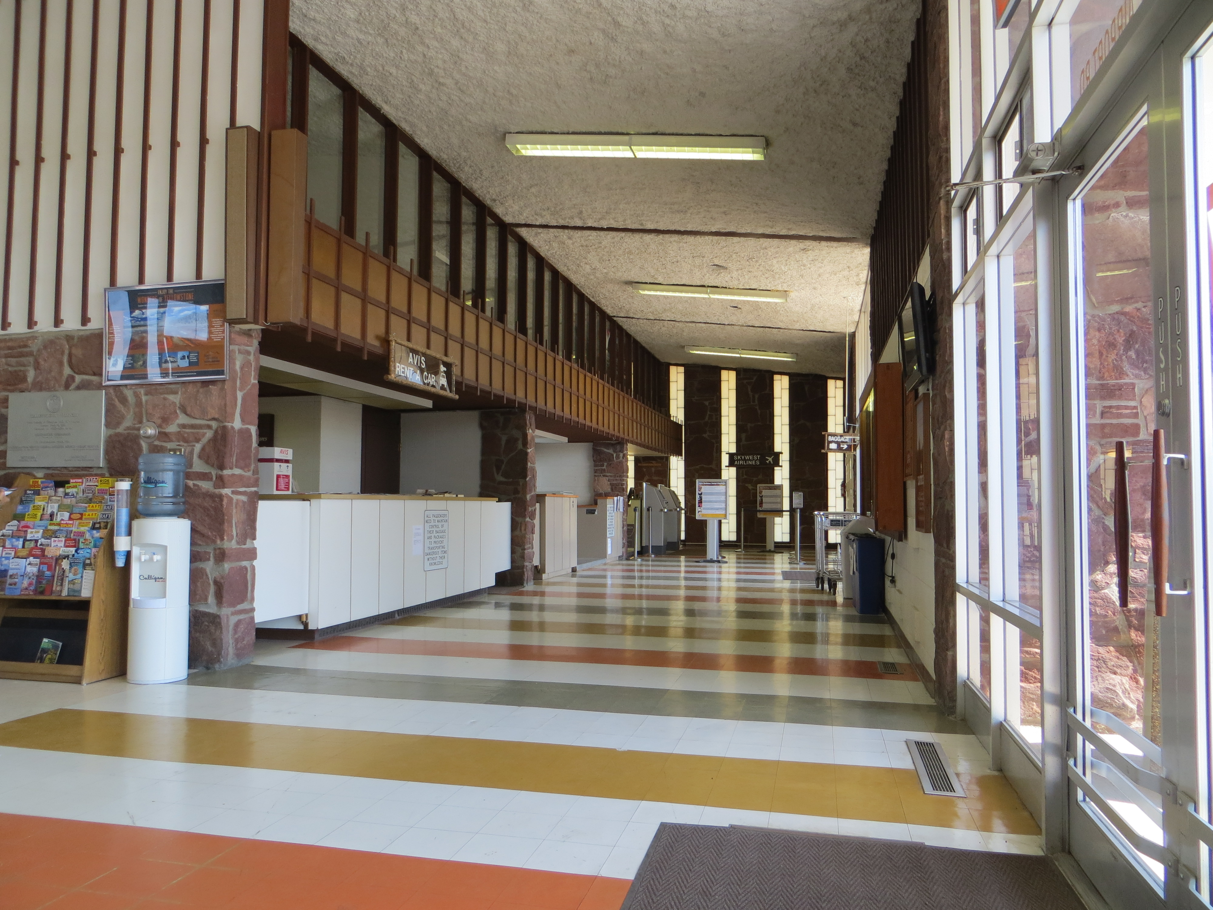 One end of West Yellowstone Airport, facing the rental car and ticketing counters.